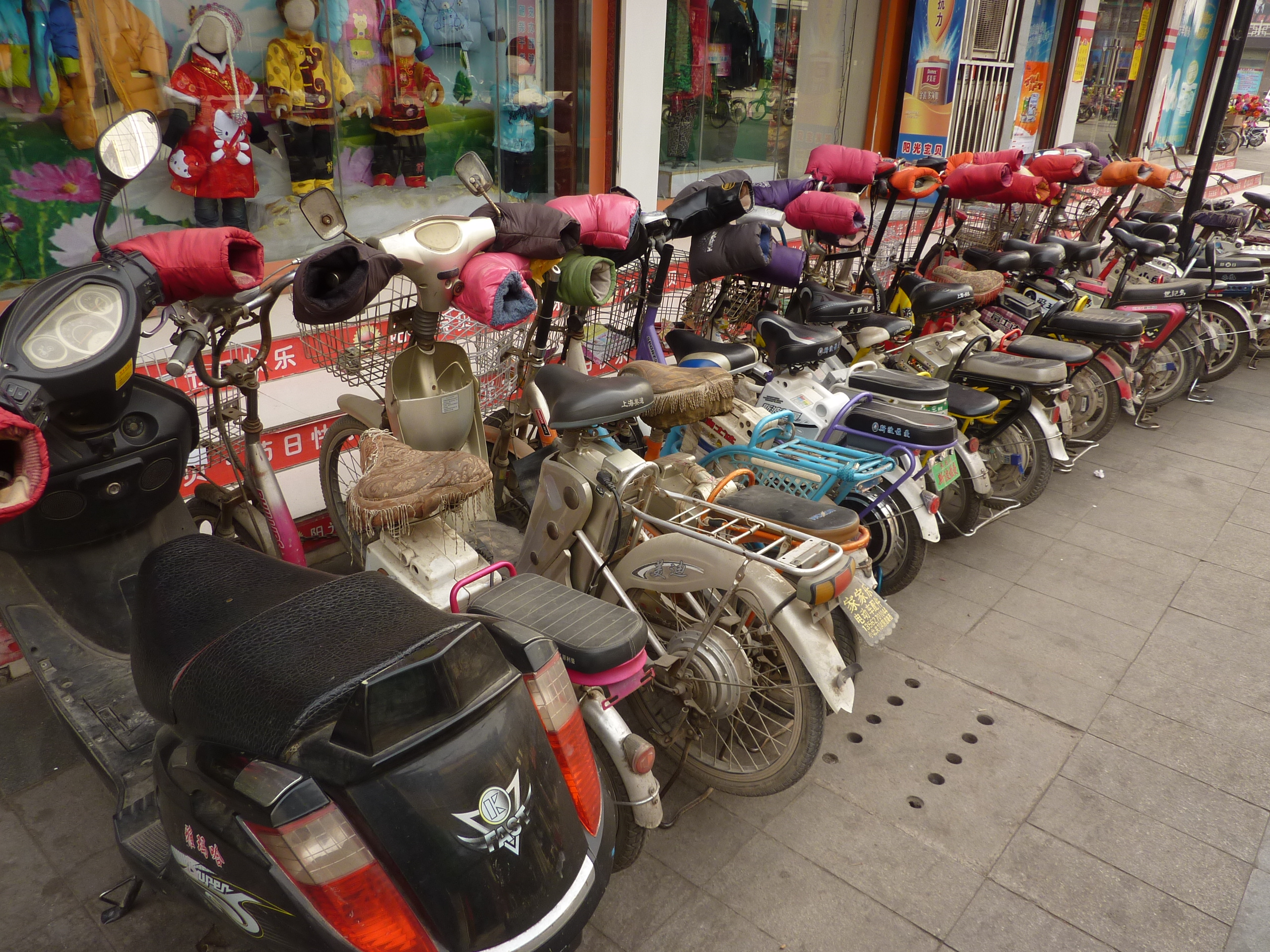 Regular and electric bikes parked in Qufu's shopping area. Winter weather in Shandong is freezing, so owners of electric bikes equip their vehicles with glove-like sleeves attached to handlebars, to keep hands warm.